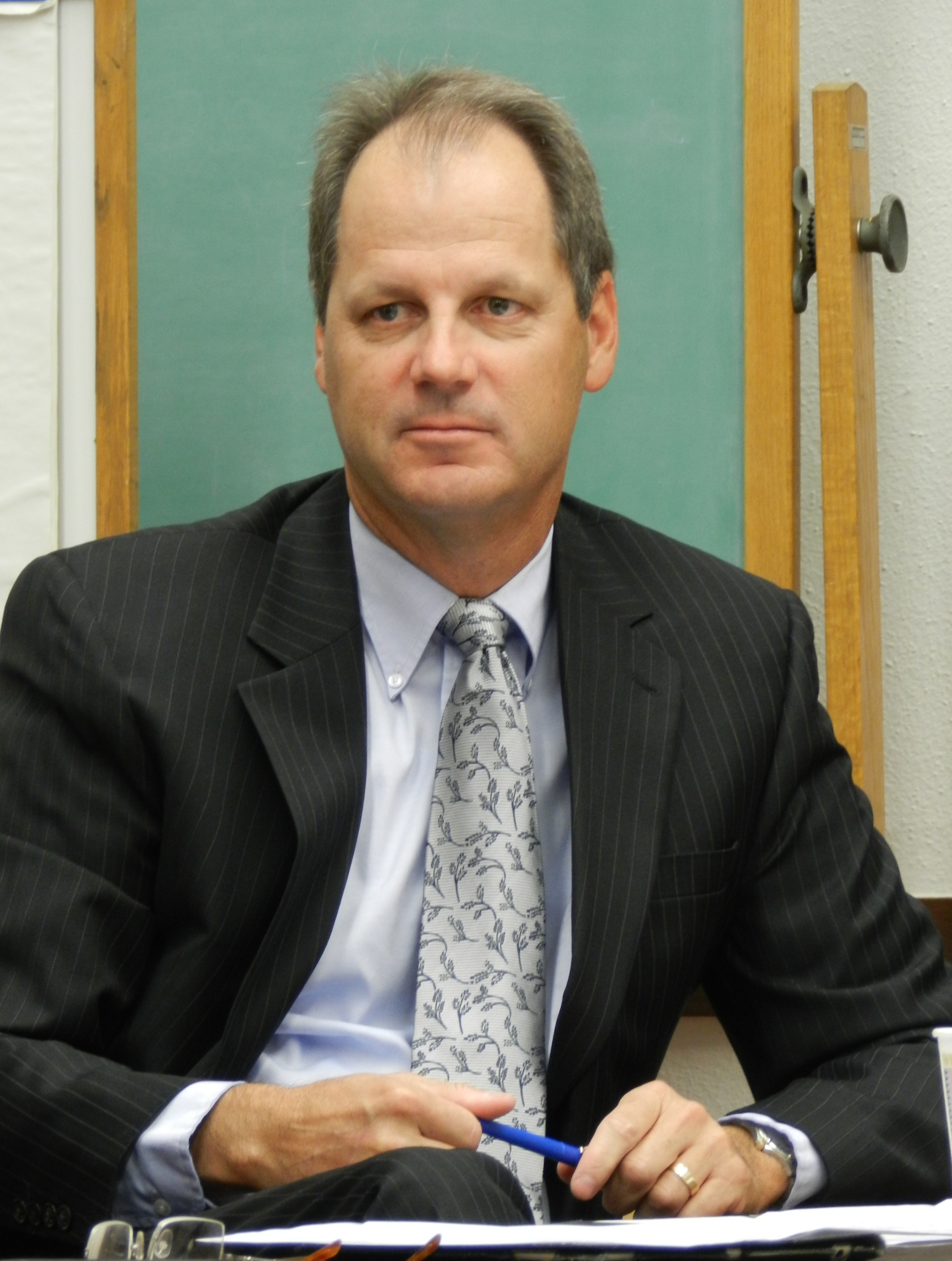 Senate Republicans meet to elect their new leadership team for the 2011-12 session. Learn more at